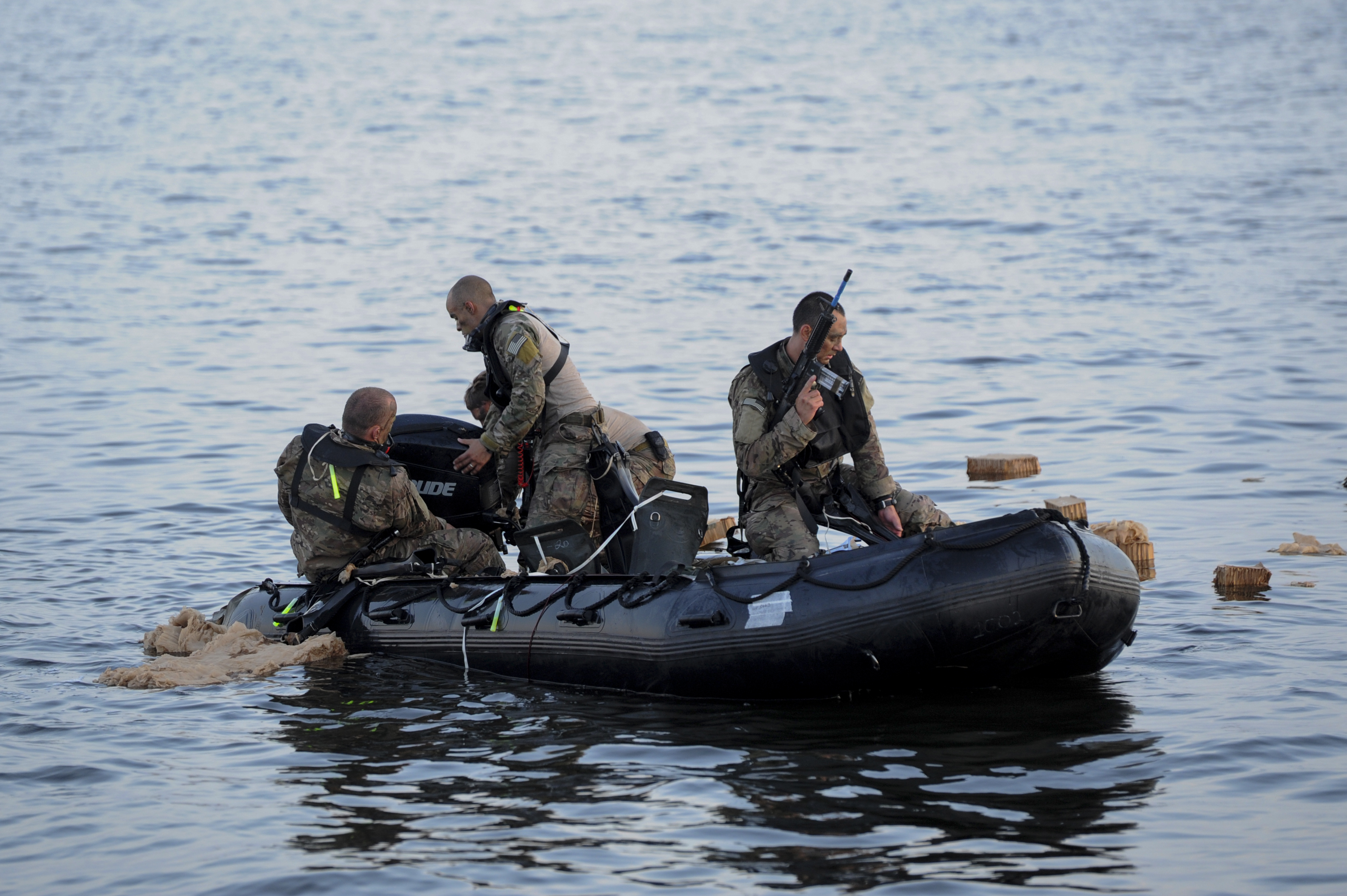 U.S. Army Special Forces Soldiers assemble the engine of a Zodiac boat for a training mission April 26, 2013, at Hurlburt Field, Fla., during exercise Emerald Warrior 2013. Emerald Warrior is an annual two-week joint/combined tactical exercise sponsored by U.S. Special Operations Command designed to leverage lessons learned from operations Iraqi and Enduring Freedom to provide trained and ready forces to combatant commanders.